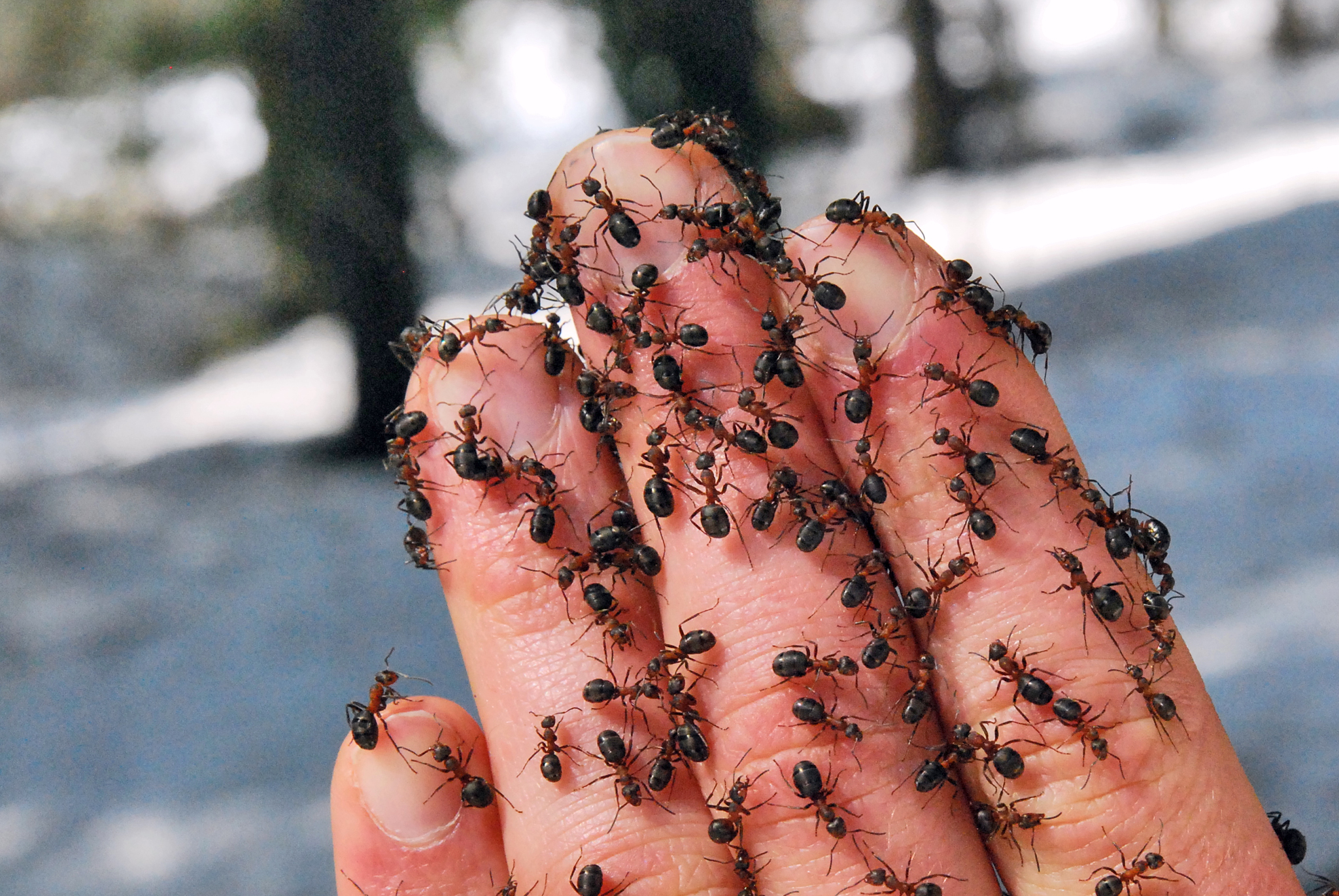 The ant species formica rufa on a human hand.